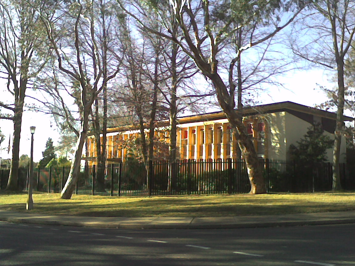 Embassy of Germany in Canberra, Australia